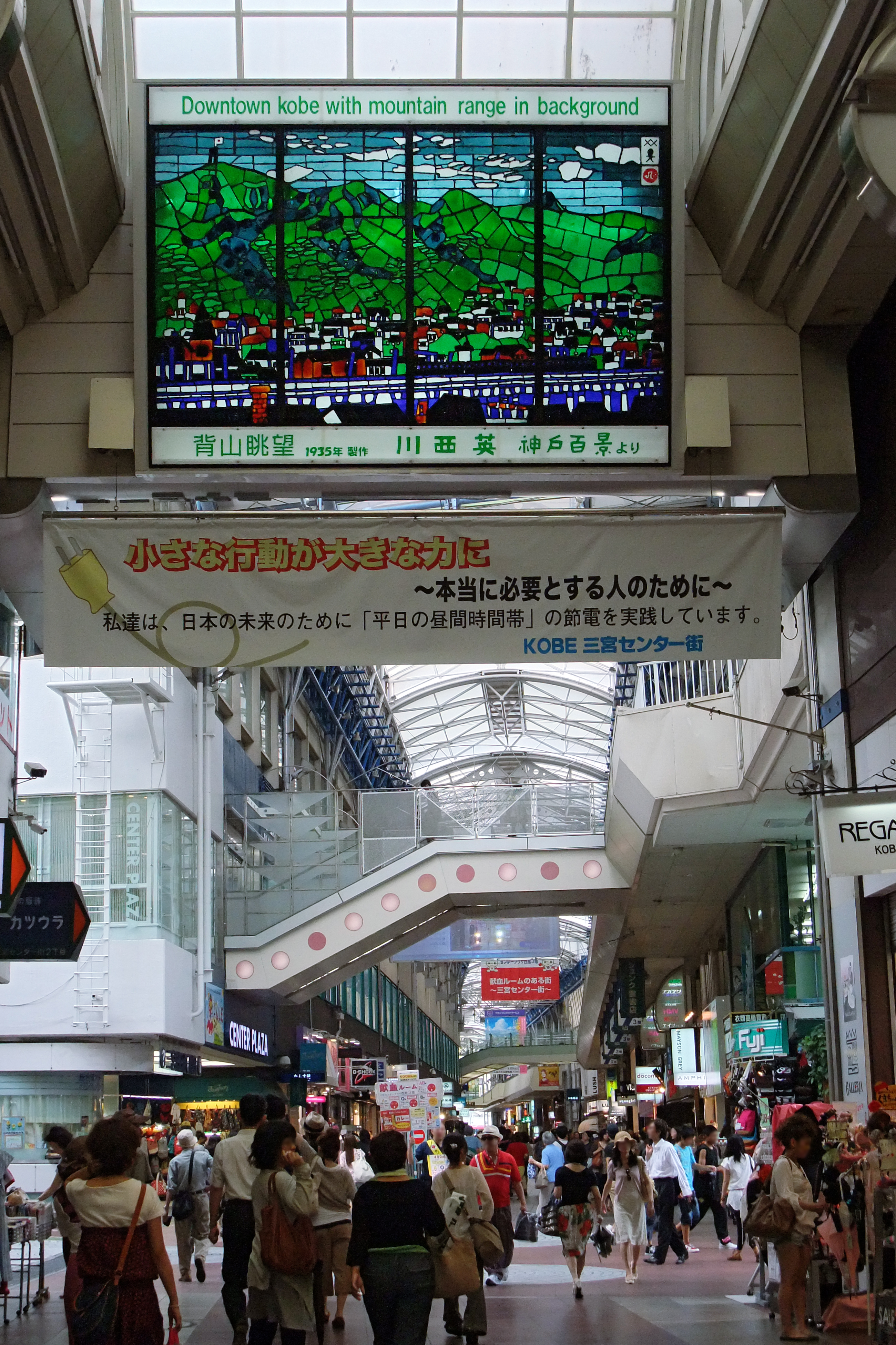 "Downtown Kobe with mountain range in background" by Hide Kawanishi (reproduction by stained glass) at Sannomiya Center Street in Kobe, Hyogo prefecture, Japan